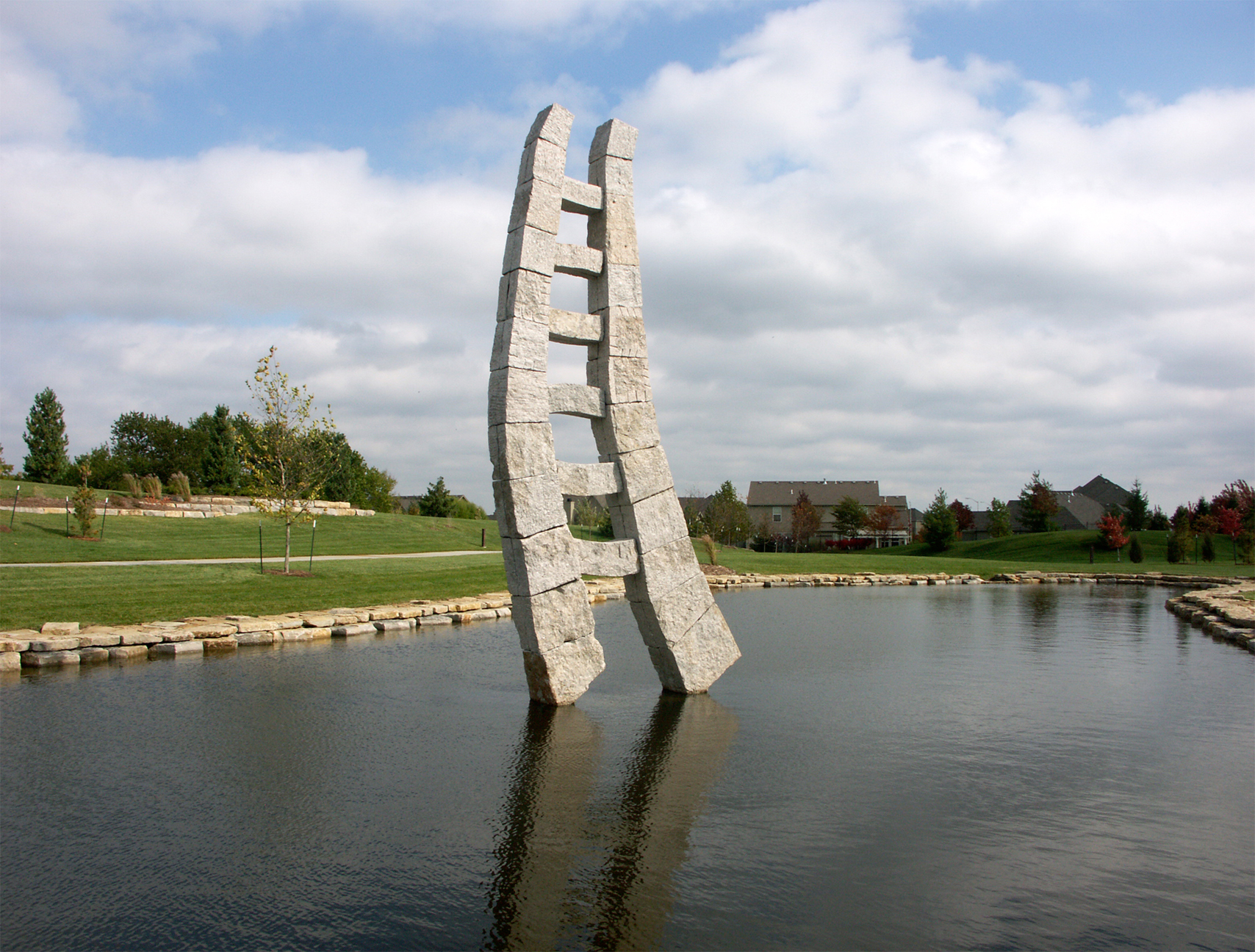 Avanim Vetseadim (steps and stones), 2008 Stone, steel 24 x 9.5 x 2 feet Commissioned by the City of Leawood, Kansas, for Gezer Park